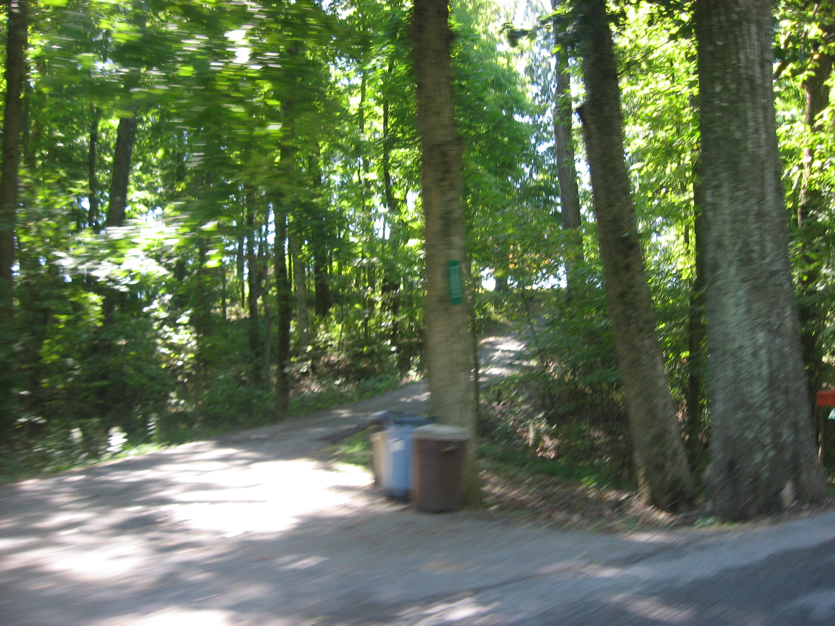 Driveway to Jersey Park Farm, located on Cunningham Sarles Road northeast of Georgetown in Greenville Township, Floyd County, Indiana, United States. The farm is listed on the National Register of Historic Places.